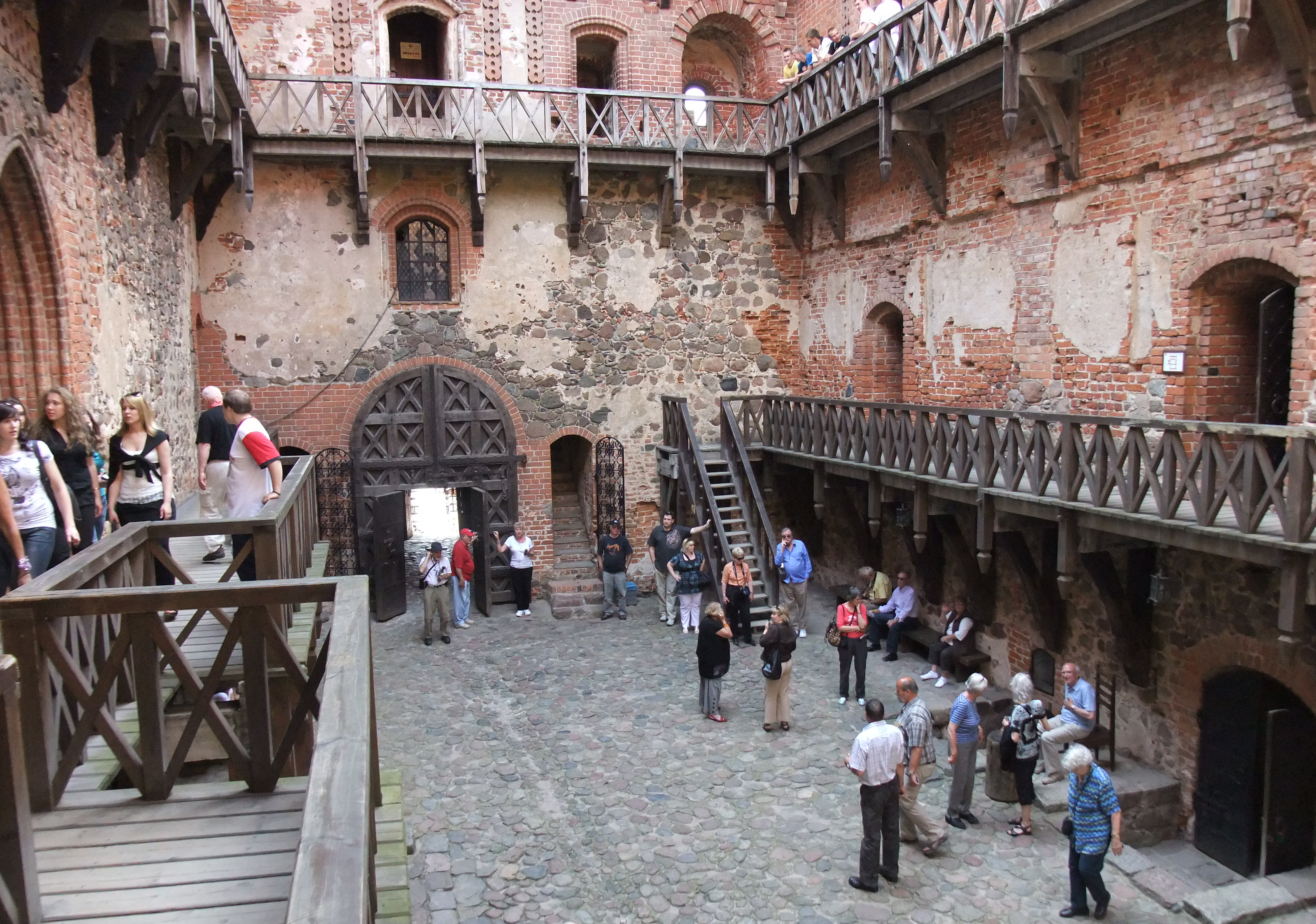 Interior court of Trakai Island Castle, Lithuania